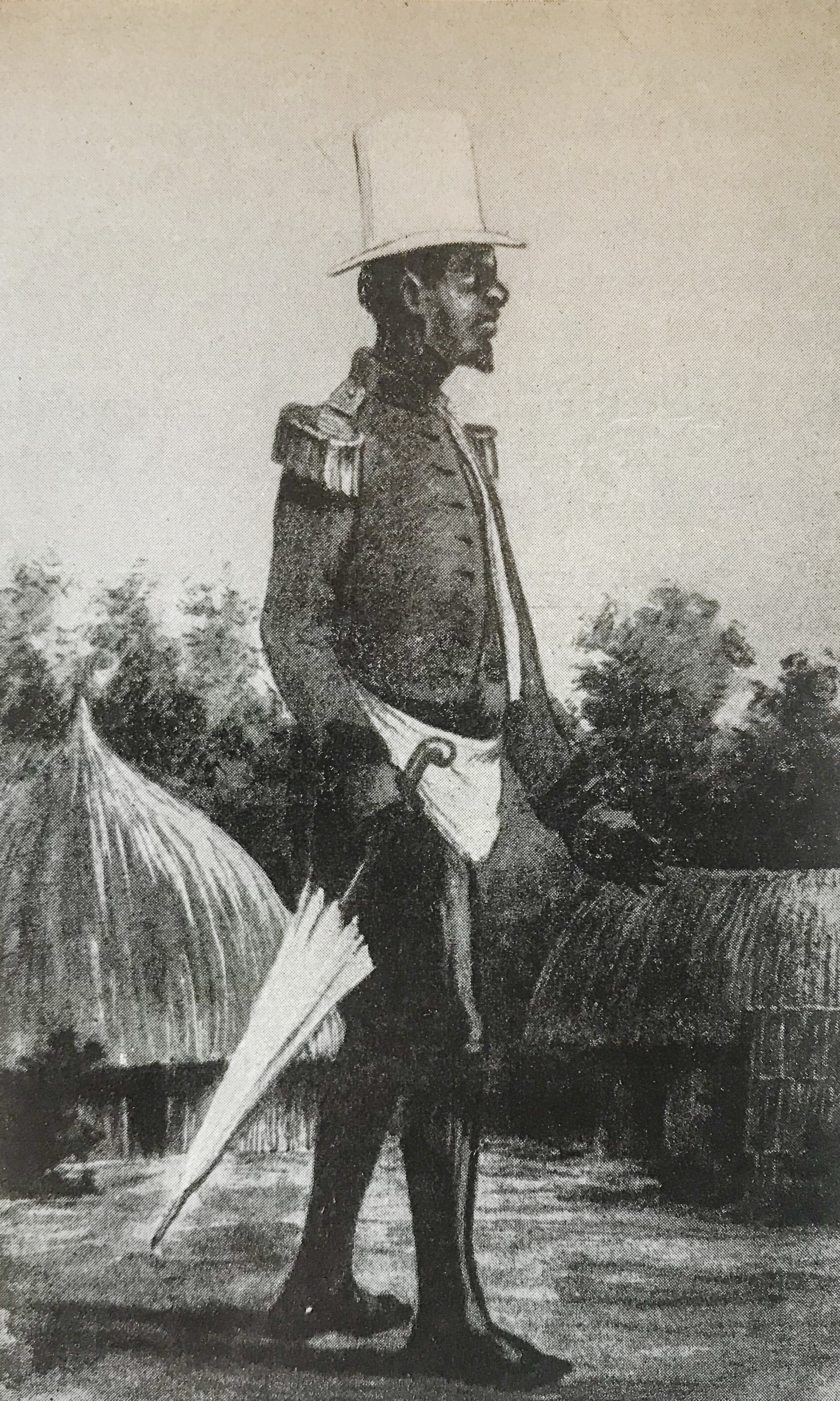 Lamina, King of the Nalous by Masui